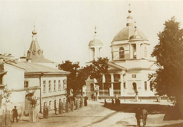 View of Saint Mykola Dobroho Church in Kyiv, Ukraine, end of 19 Century. The church was destroyed by order of the Soviet Government in 1935 as part of the anti-religious communist campaign. Only the bell tower (on the left of the photo) survives today.